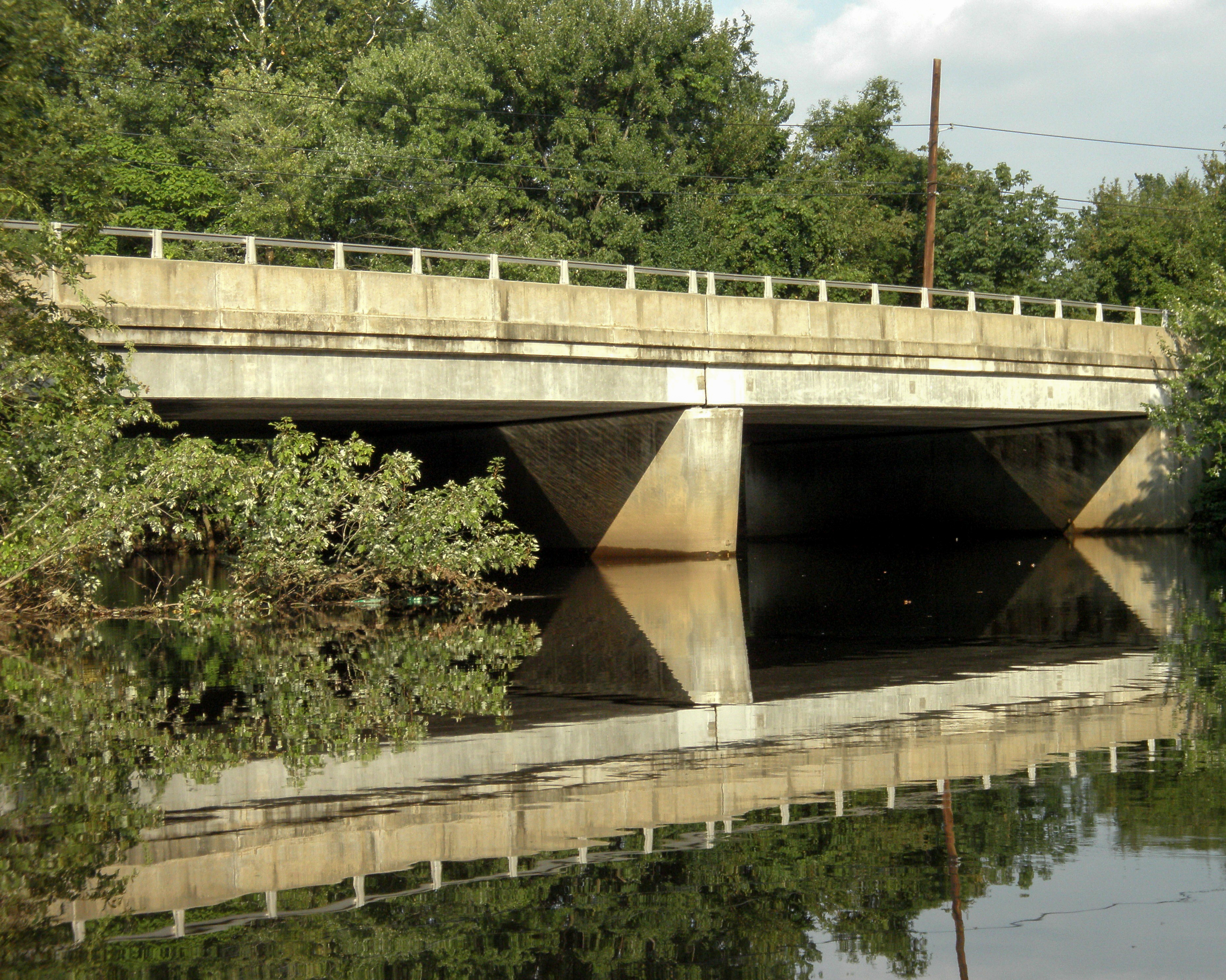 Hanover Cook Bridge over the Passaic River, East Hanover - Livingston, New Jersey (looking northeast by kayak)